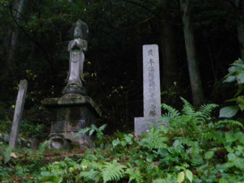 Cenotaph of casualties, near the scene of Kinomata-yōsui culvert accident. Nasushiobara, Tochigi, Japan.